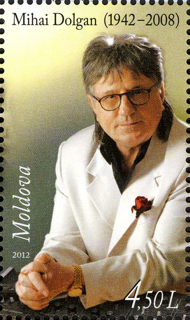 Stamps of Moldova